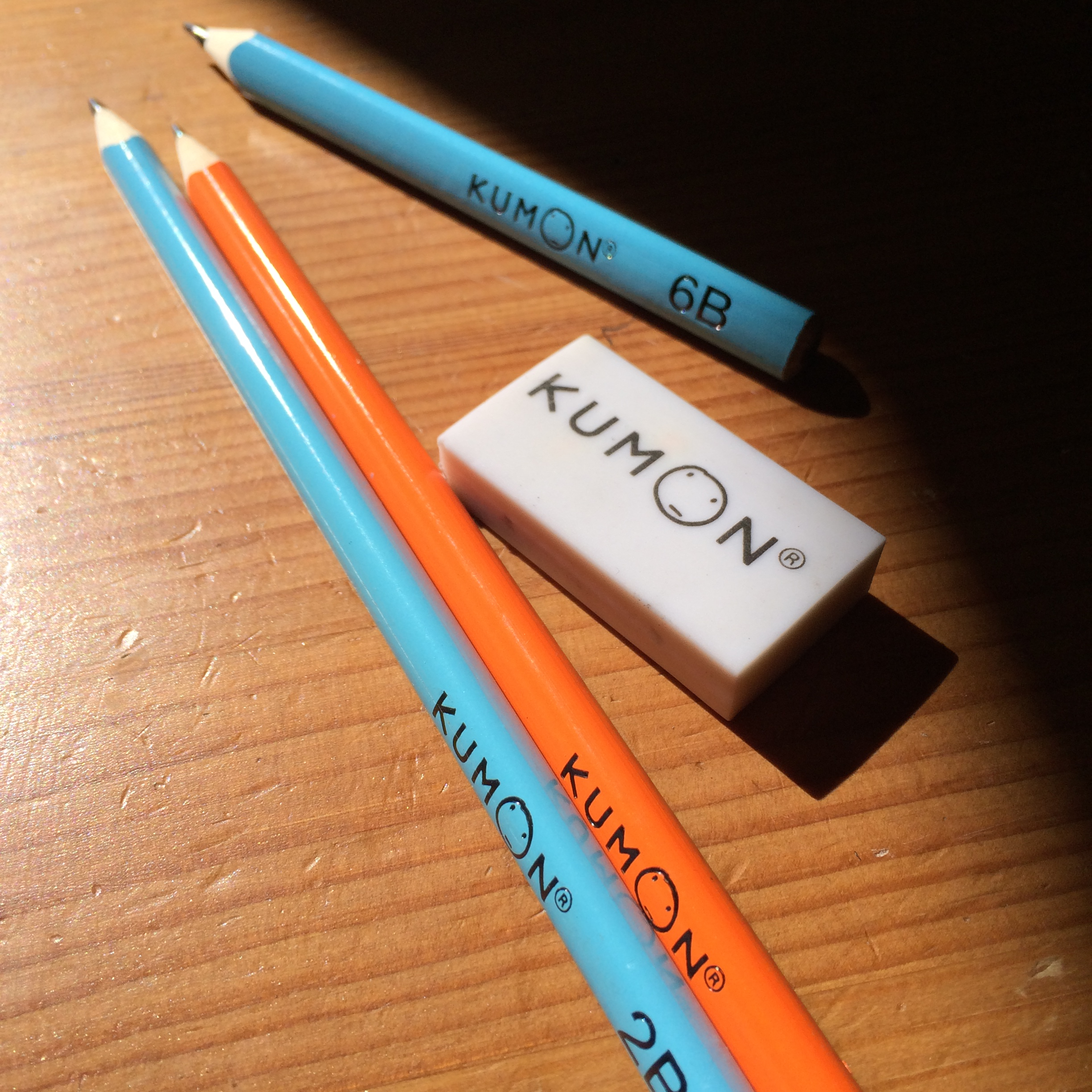 Pencils and an eraser with the Kumon logo